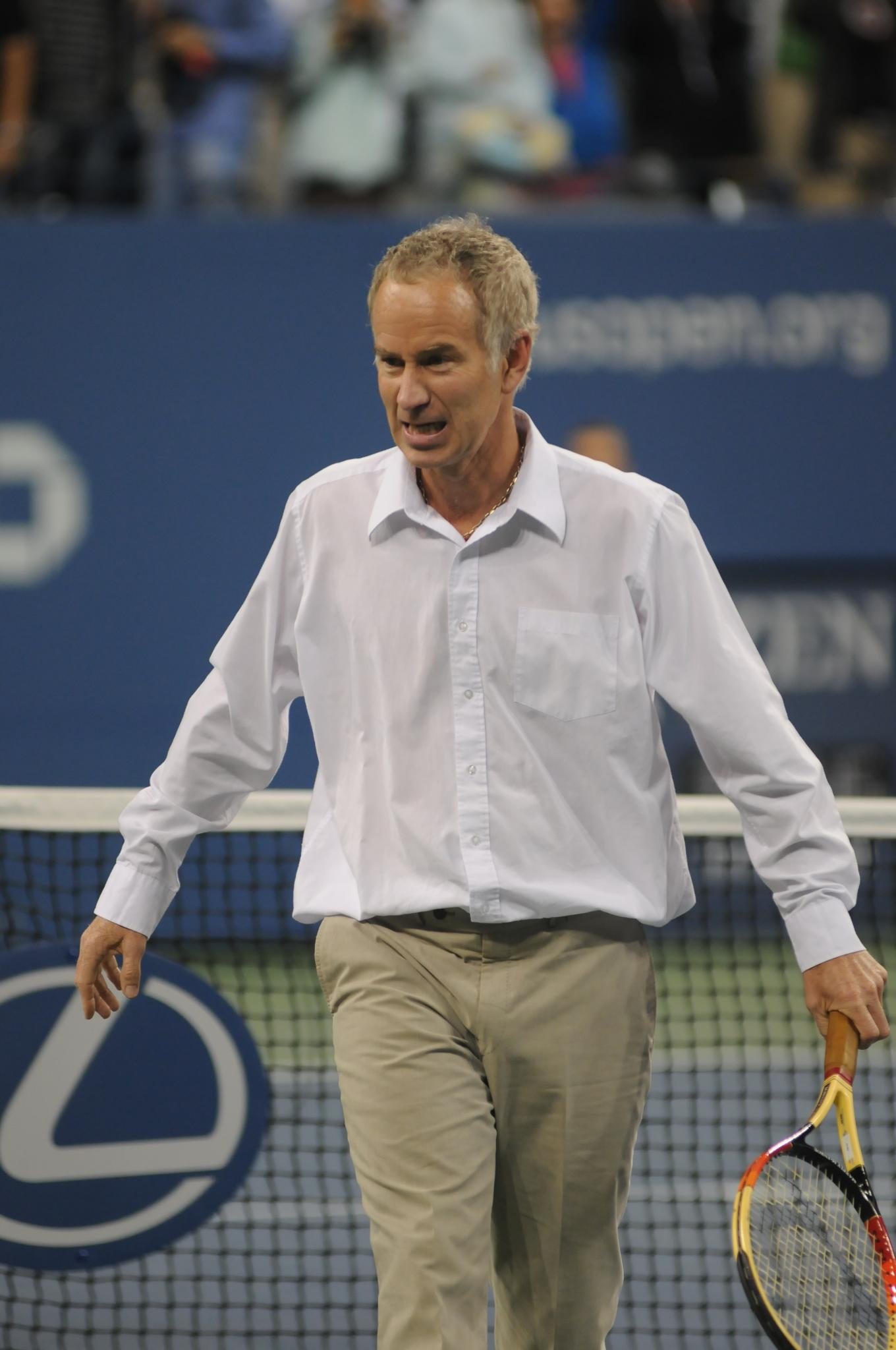 John McEnroe at the 2009 US Open